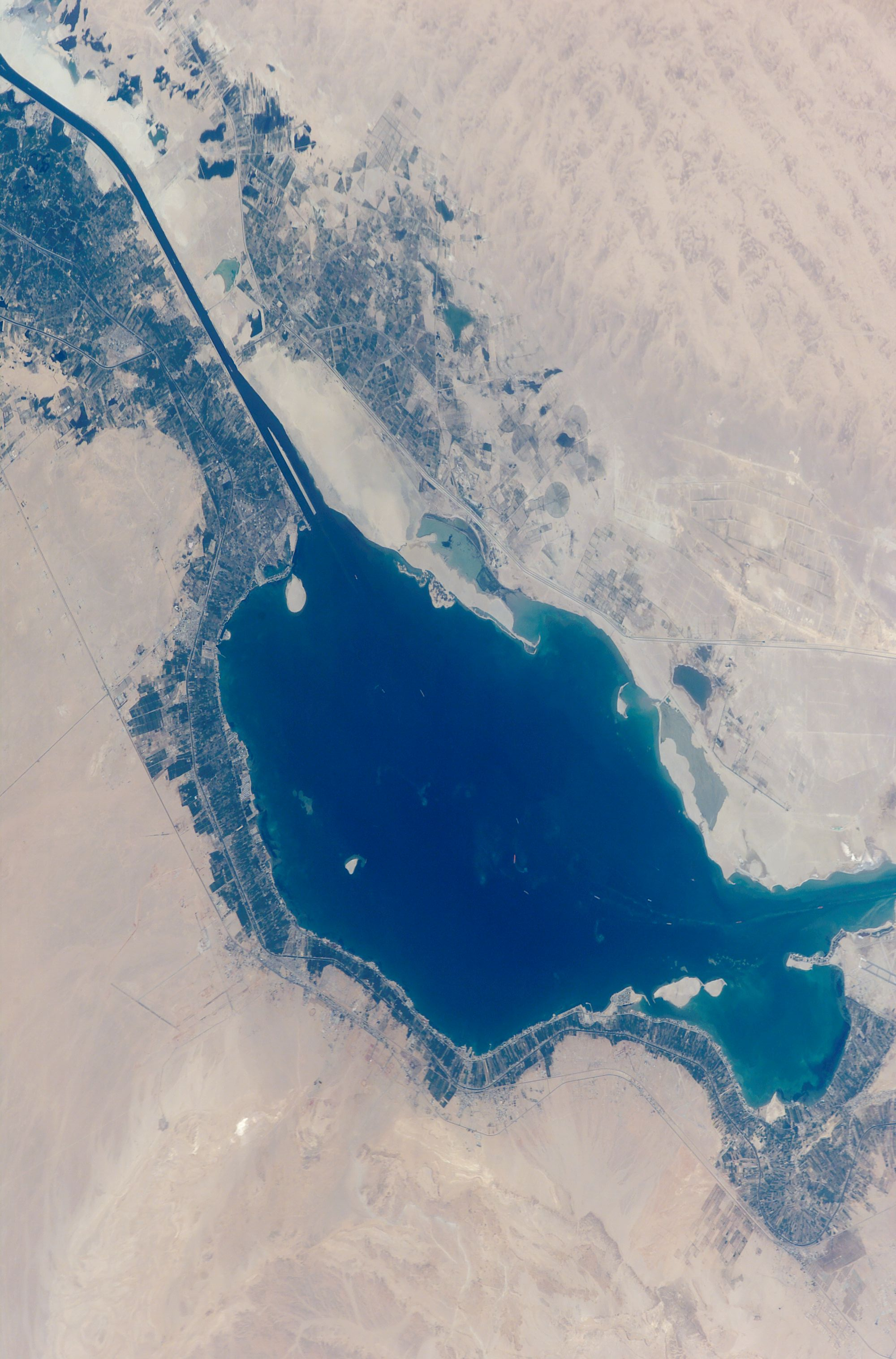 Photograph of Great Bitter Lake and the Chinese Wall, taken in space